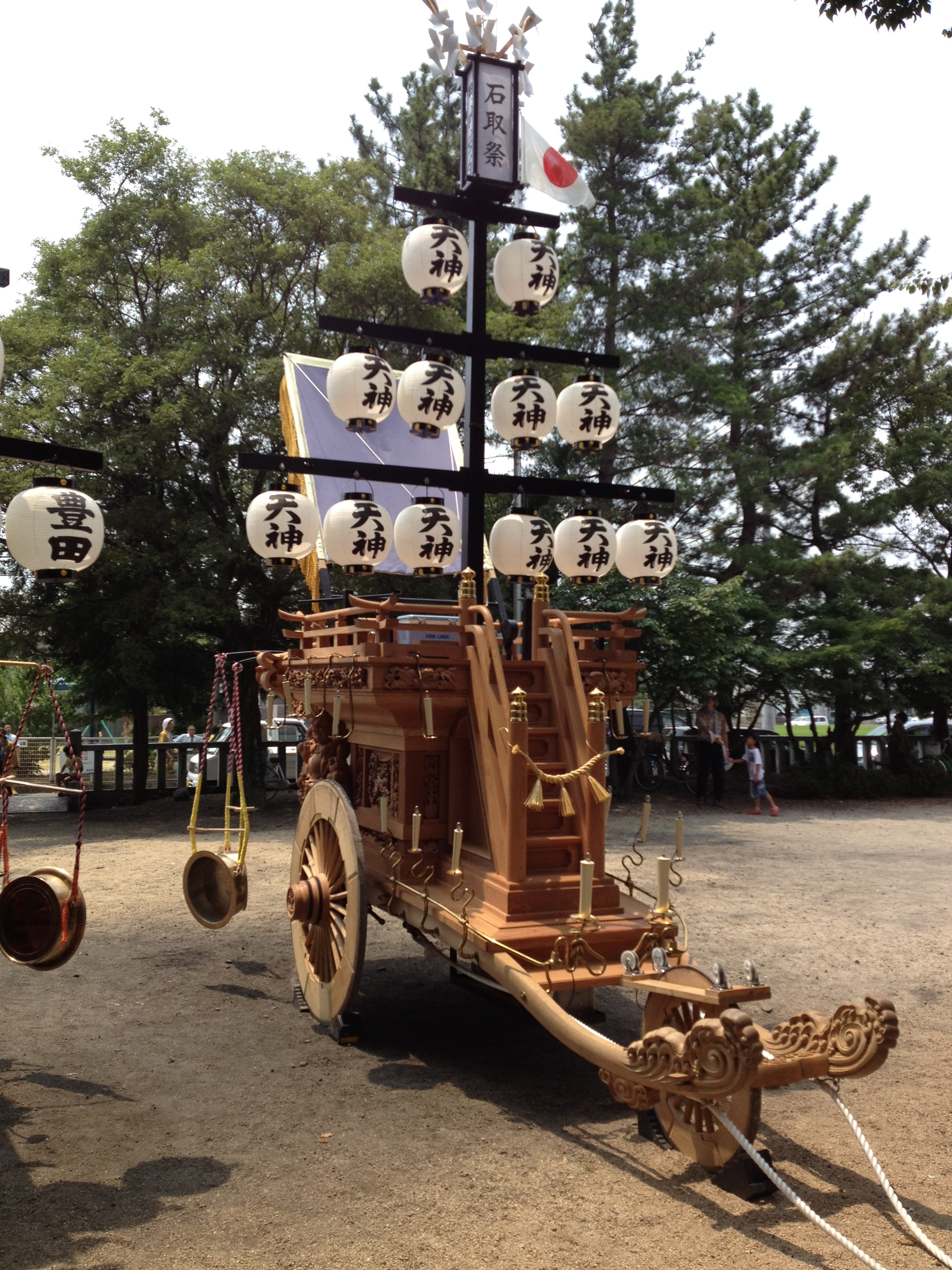 3-wheeled festival car used in the Ishidori matsuri of Mie Prefecture Kuwana. What is a neighborhood of Mie-gun Kawagoe-cho, Tenjin district.